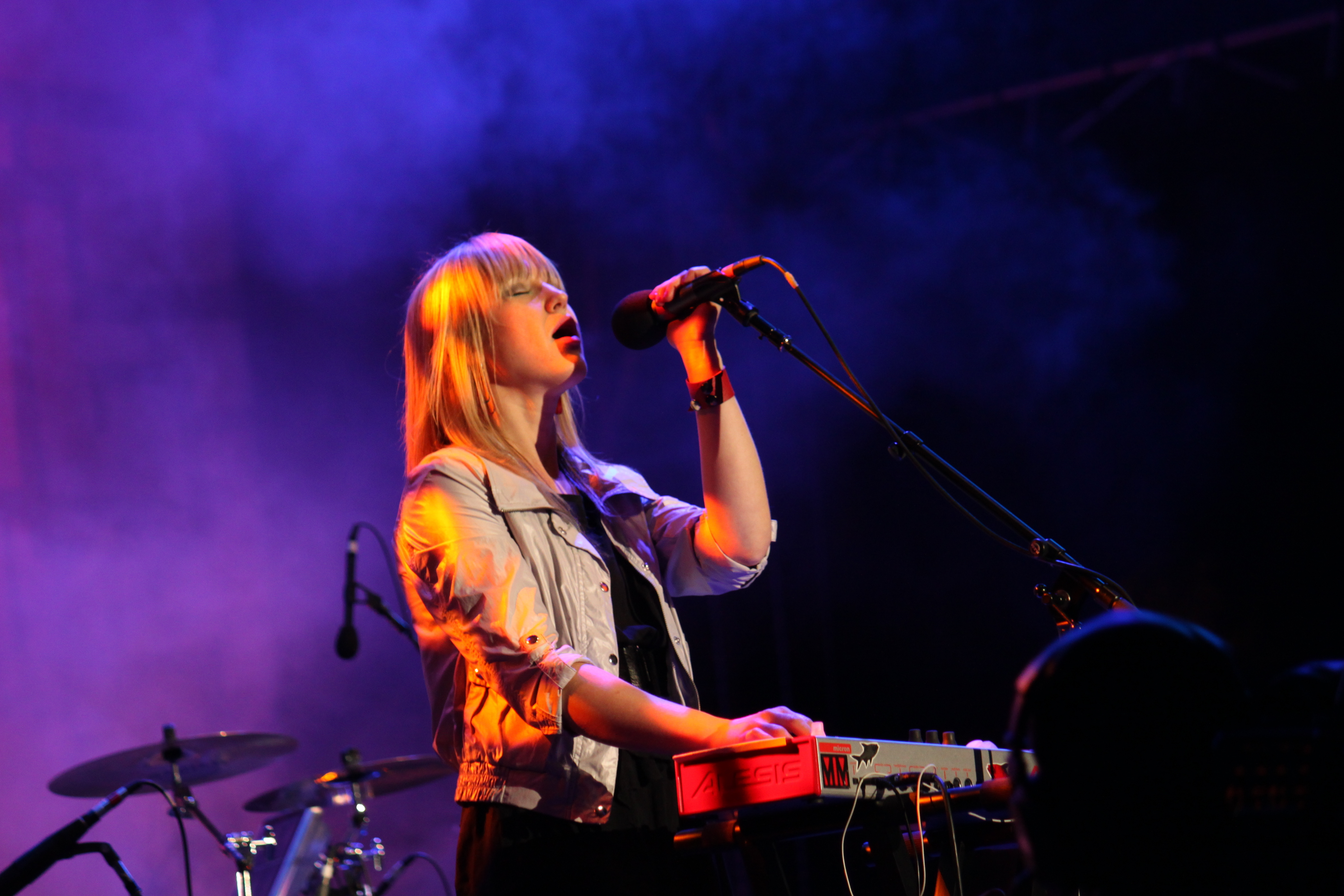 Molly Guldemond, female vocalist and keyboard player, from Canadian band Mother Mother